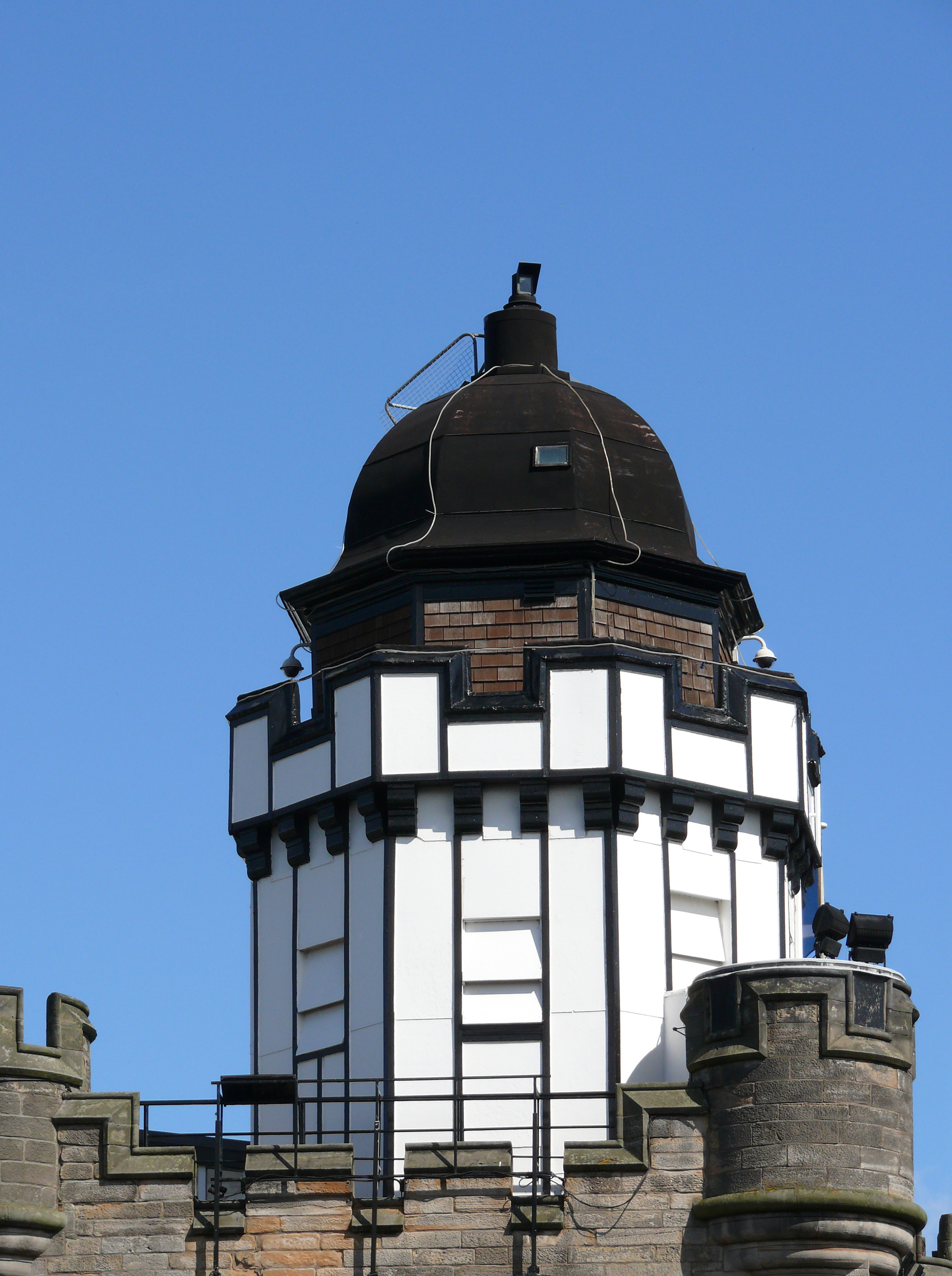 The Camera Obscura in Edinburgh. The building that now houses the Camera Obscura was once a tenement building. In 1853 its height was utilized by the installation of the camera obscura. The original camera was installed by the optician Maria Theresa Short. A system of lenses and mirrors revolve to produce a telescopic image of the city projected onto a large white table.